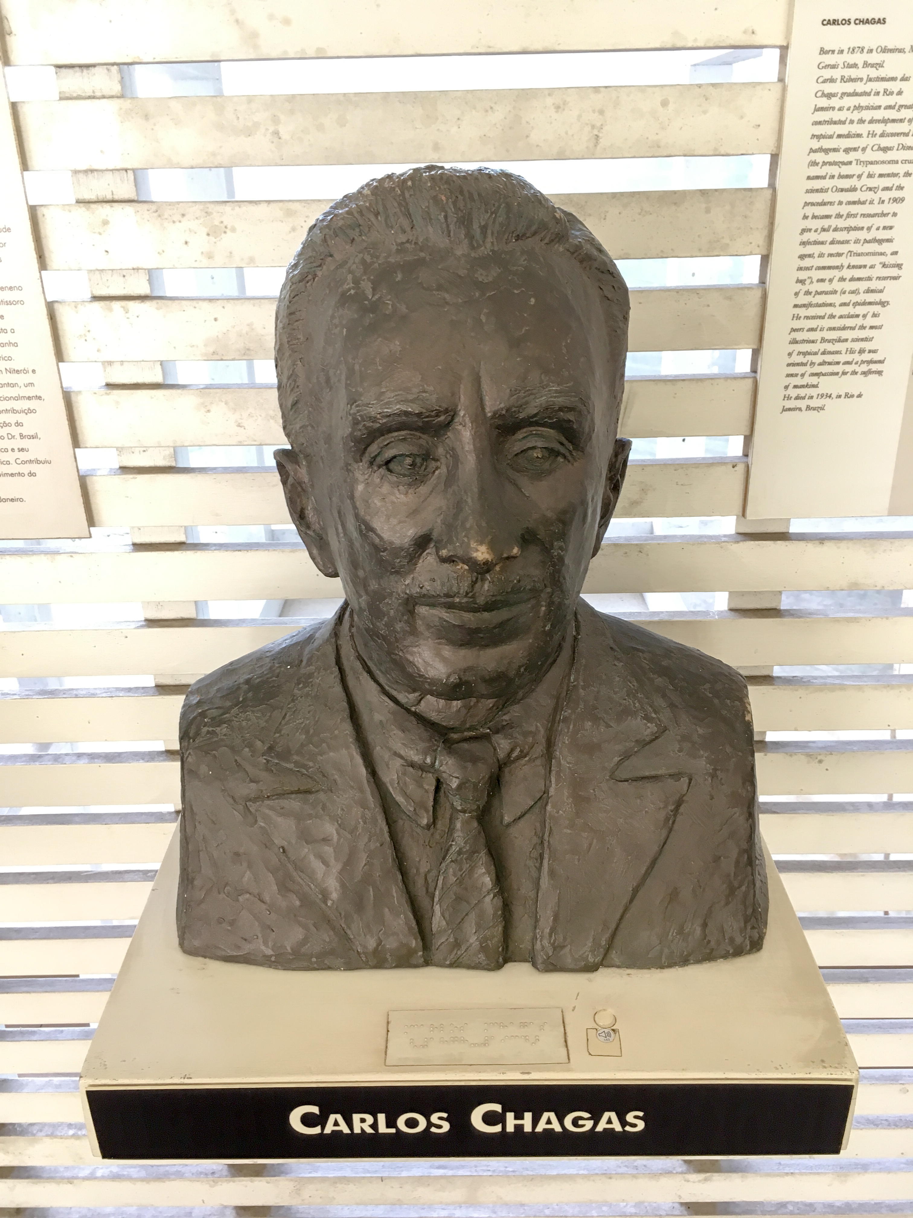 Instituto Butantan, São Paulo, Brazil.